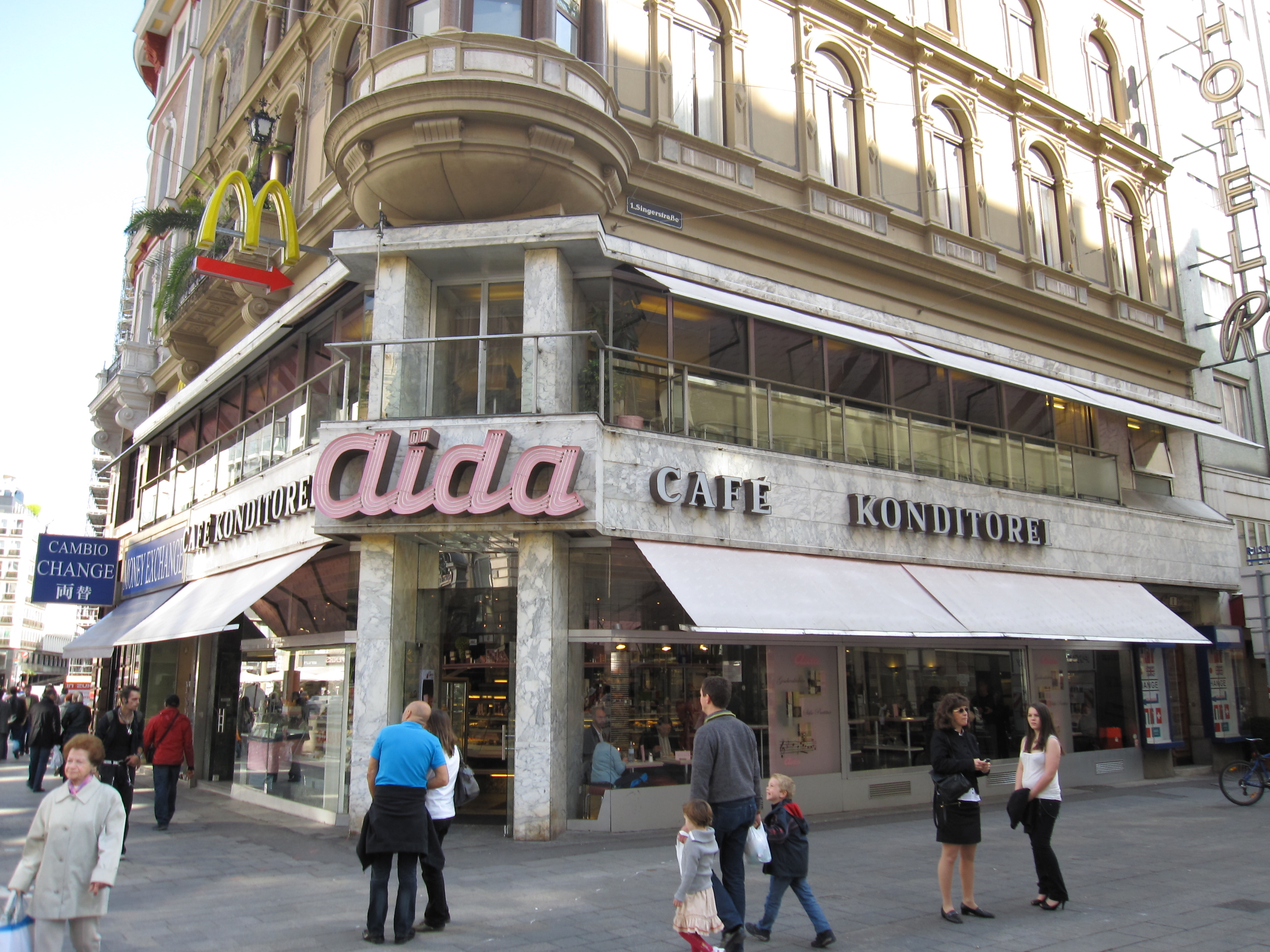 Aïda at Graben, Vienna.